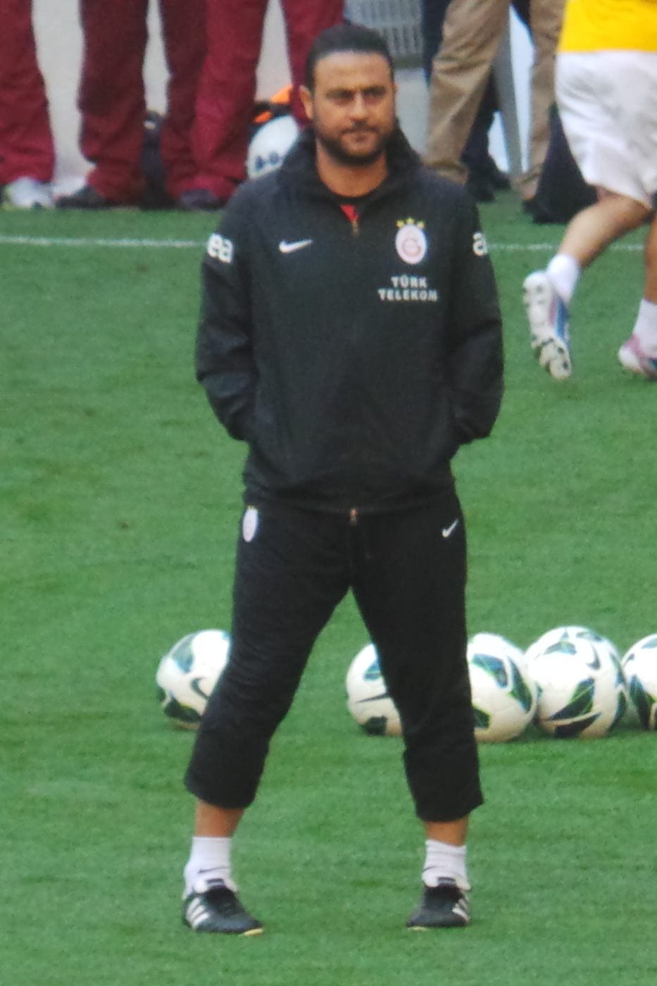 Hasan Şaş with GS